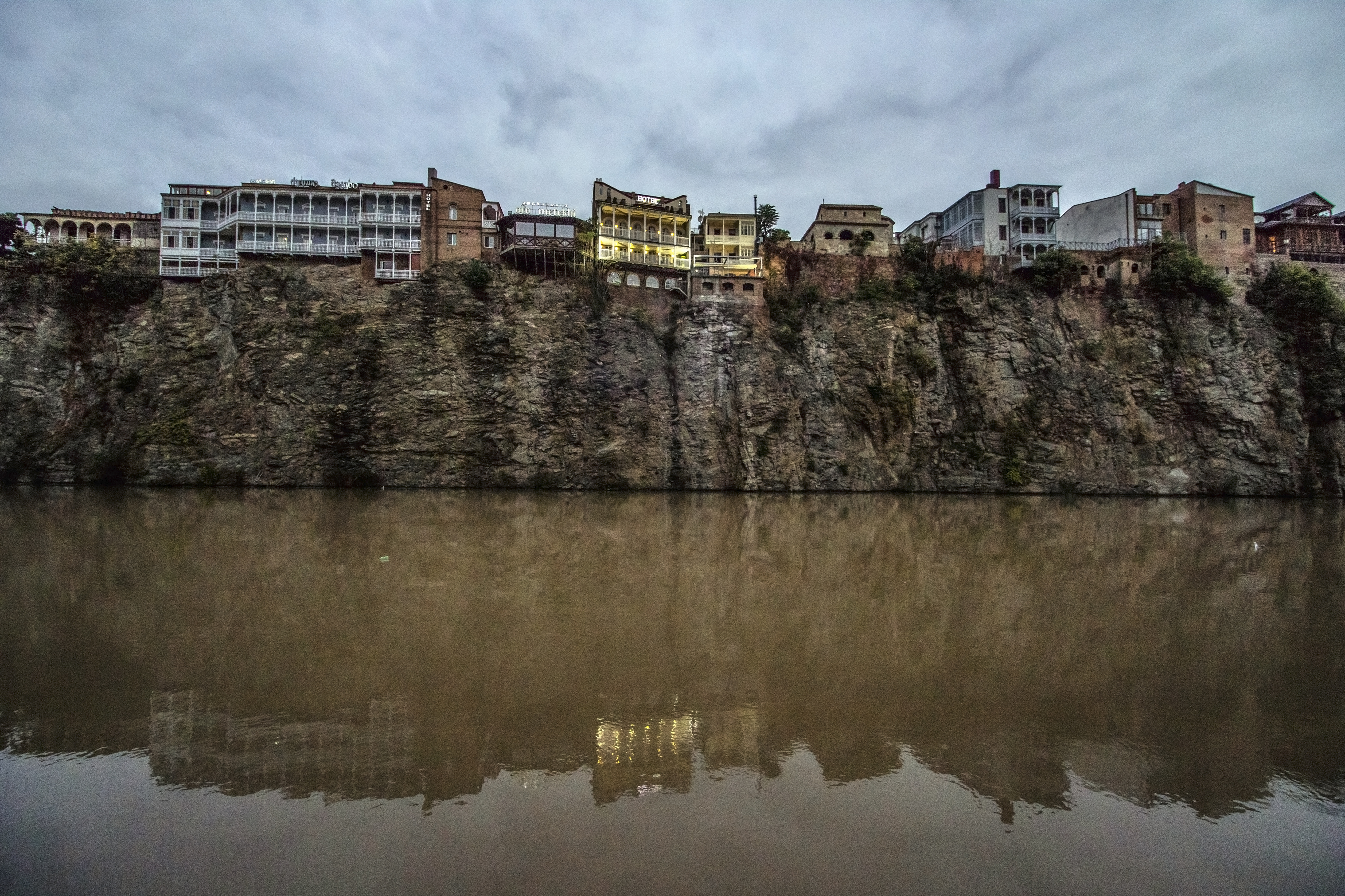 The Kura is an east-flowing river south of the Greater Caucasus Mountains which drains the southern slopes of the Greater Caucasus east into the Caspian Sea.